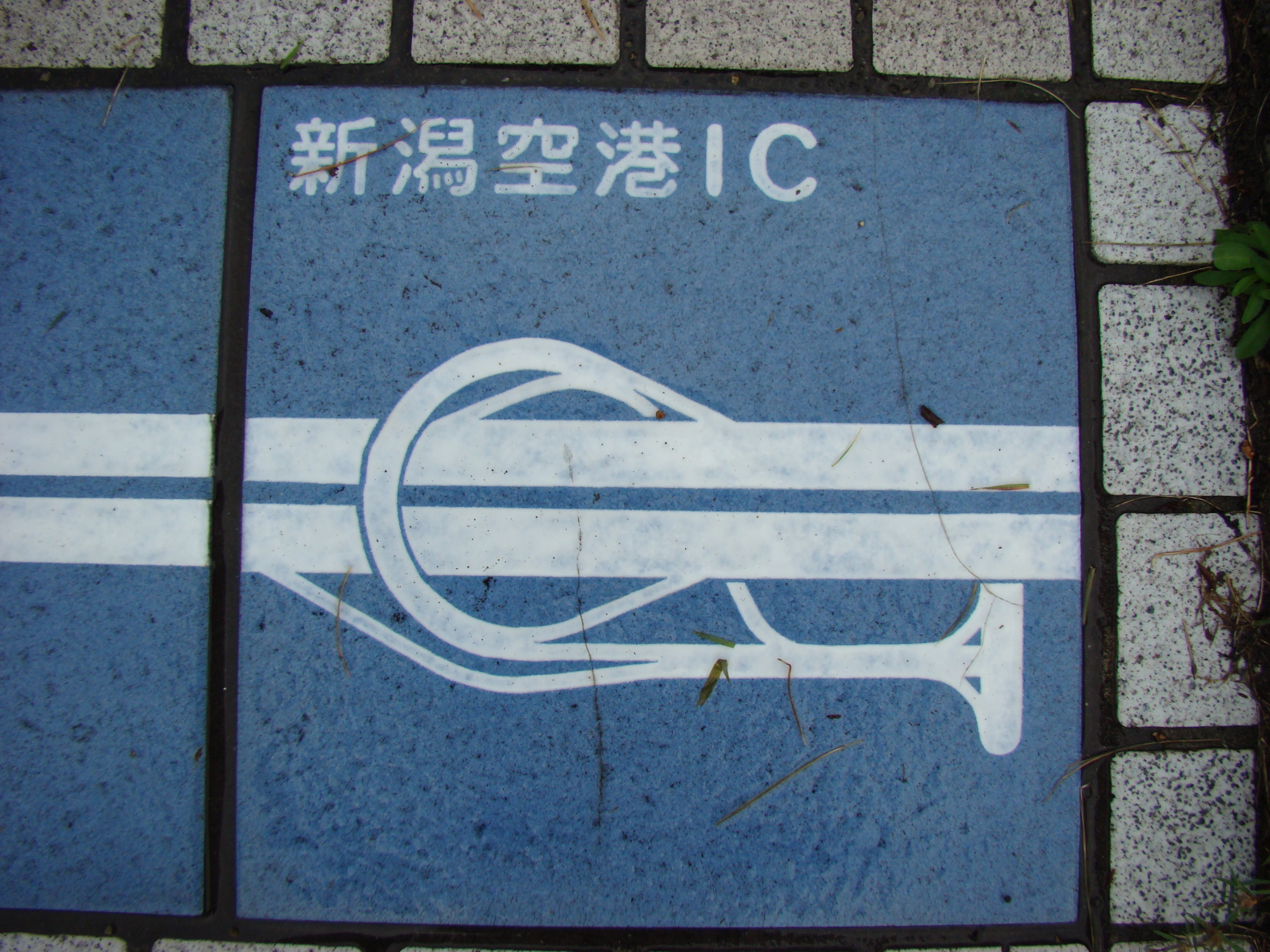 The tile which designed a shape of the Niigata Airport Interchange（Nihonkai-Tohoku Expressway）（There is this tile in Nadachi-Tanihama Service Area.）. Place - Chayagahara,Joetsu City,Niigata Prefecture,Japan Date - August 9, 2009 Format - JPEG, 3264x2448pixel, 24bit colors. Photographer - NALA Wiki (talk)